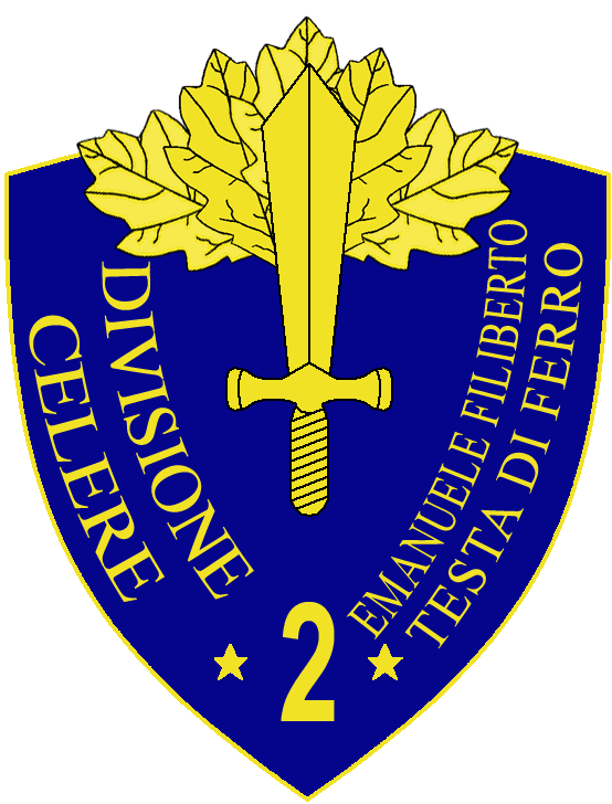 Coat of Arms of the WWII 2a Divisione Celere Emanuele Filiberto Testa di Ferro of the Italian Regio Esercito